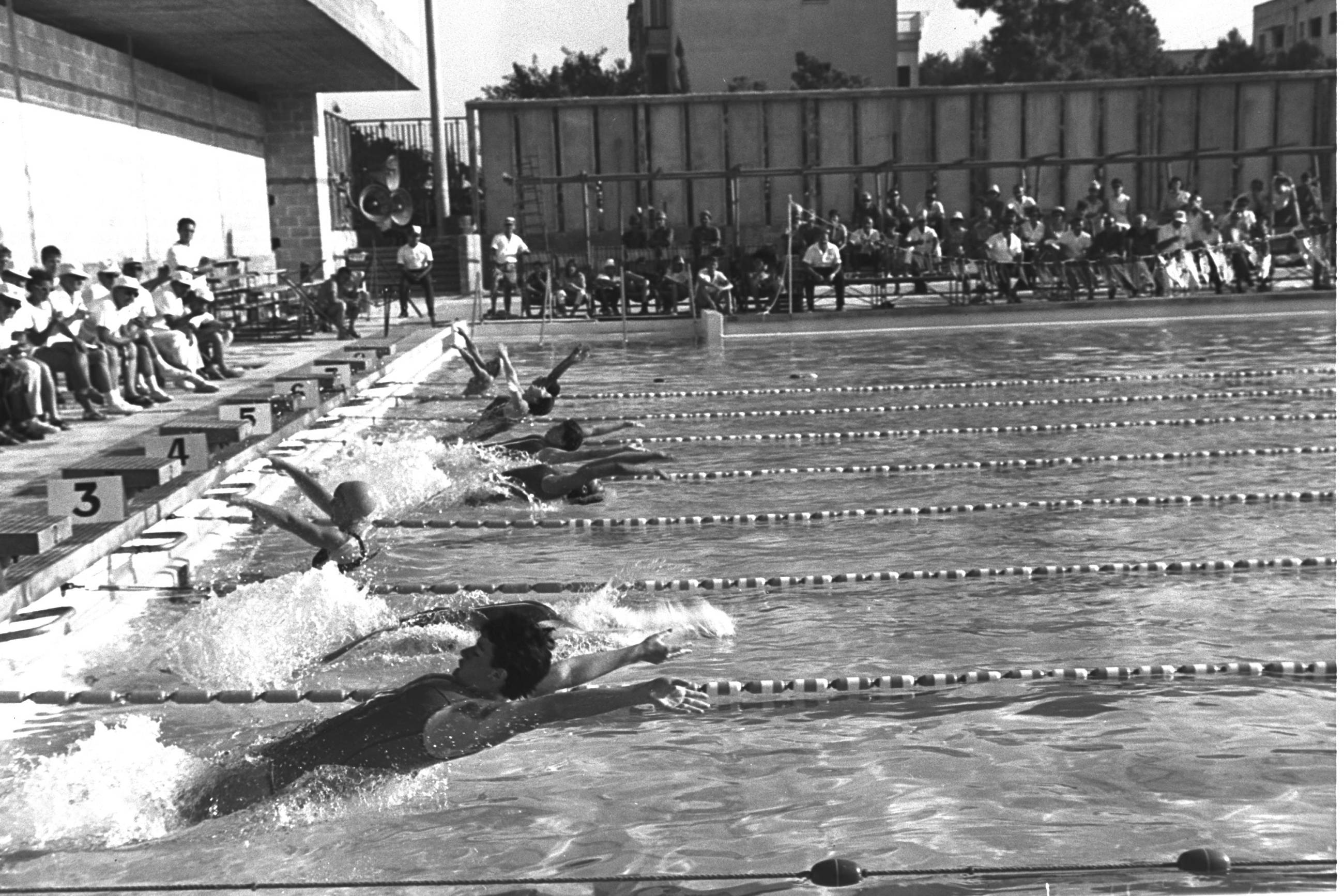 The 100m backstroke competition during the 7th Maccabia Games, held at the new swimming pool in Yad Eliyahu.